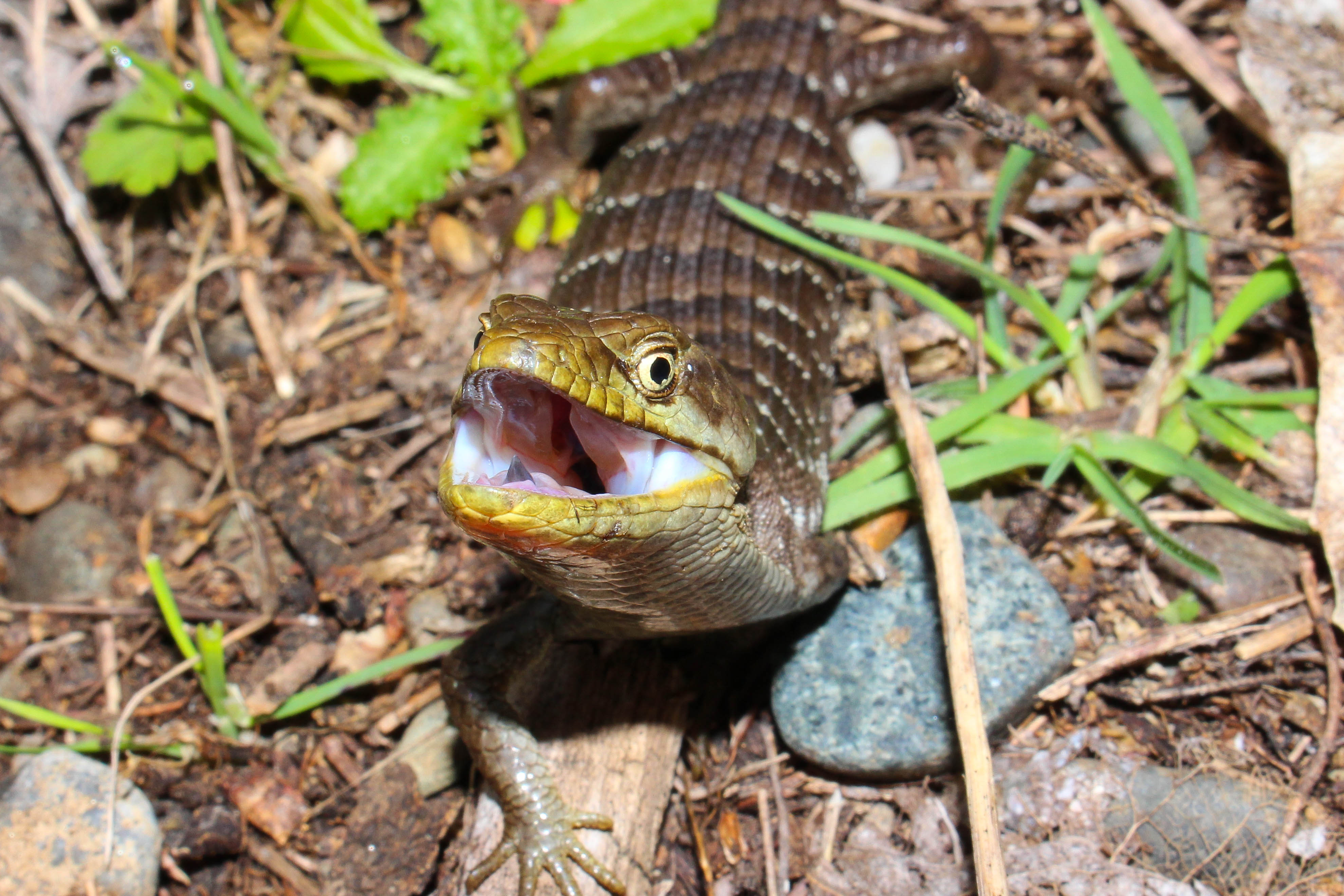 A Southern alligator lizard defends itself against the photographer's advances.